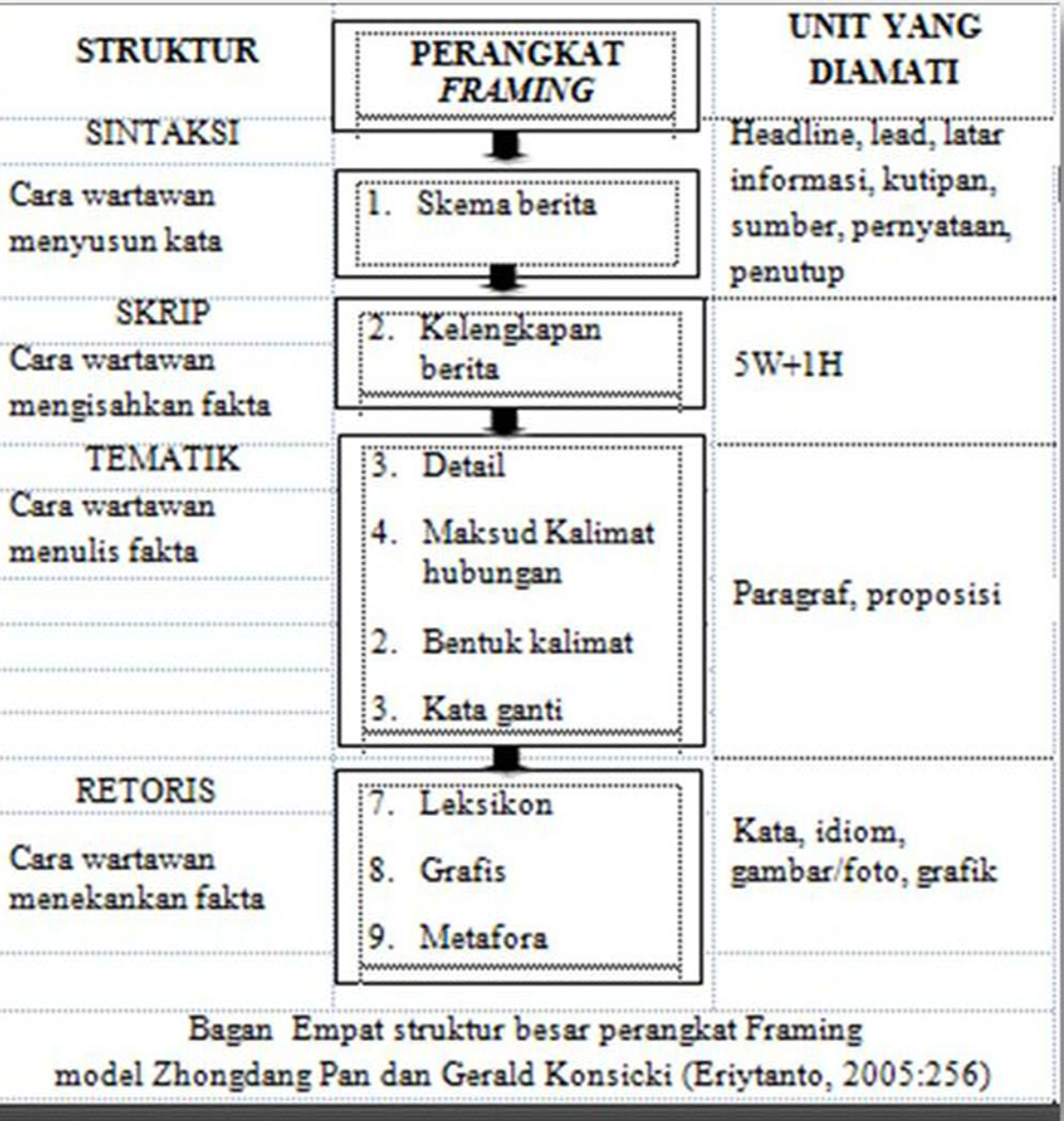 Framming Analisys Model of Zhongdang Pan dan Gerald M. Kosicki